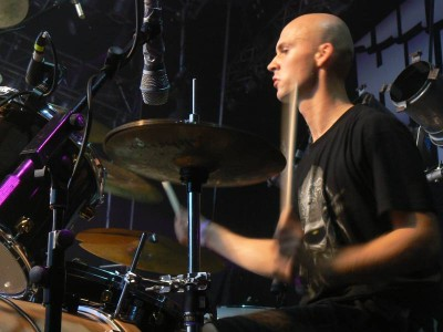 Decapitated, HunterFest, Szczytno, Plaża Miejska, 13.08.2006